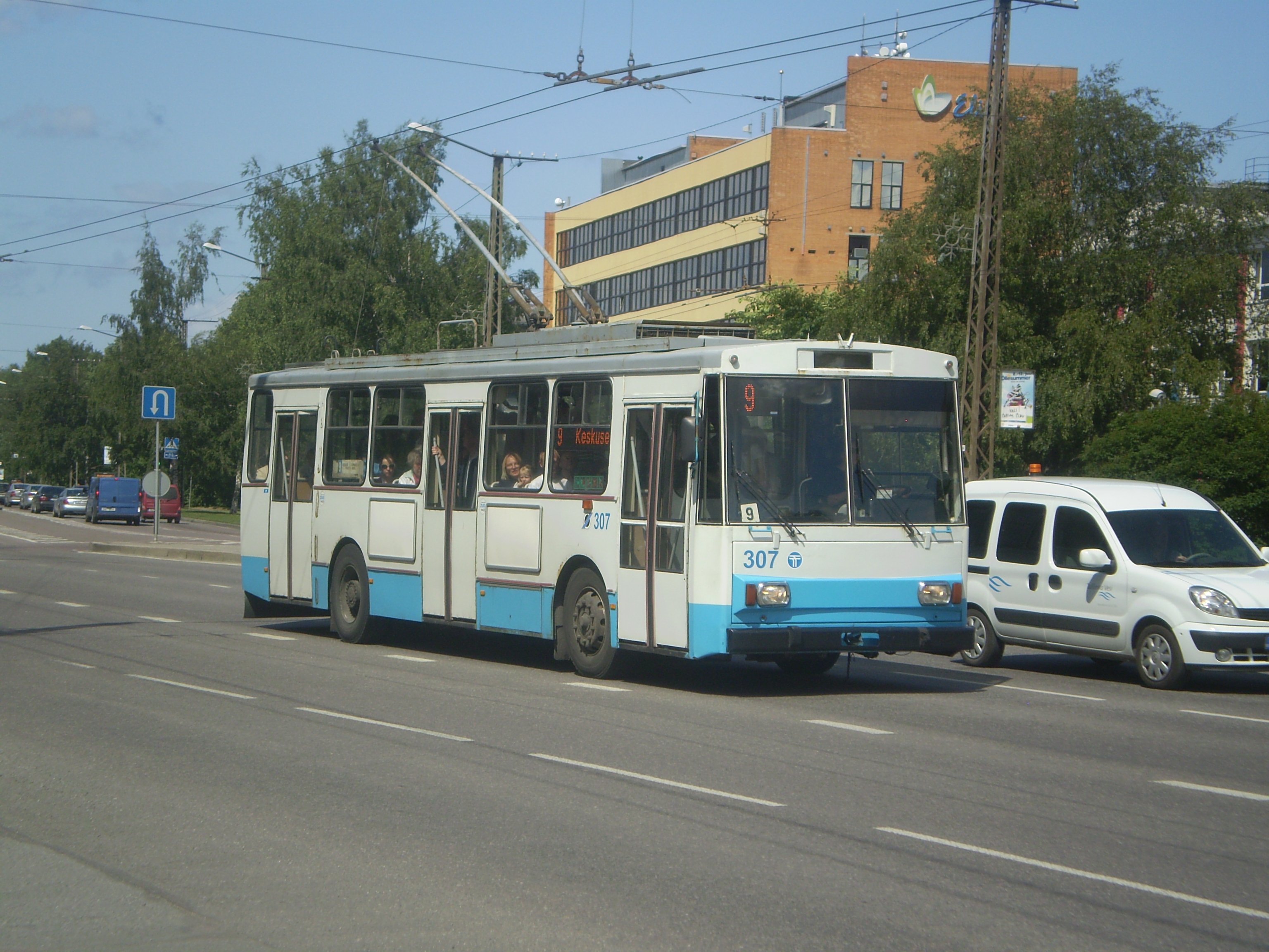 Škoda 14Tr in Tallinn.